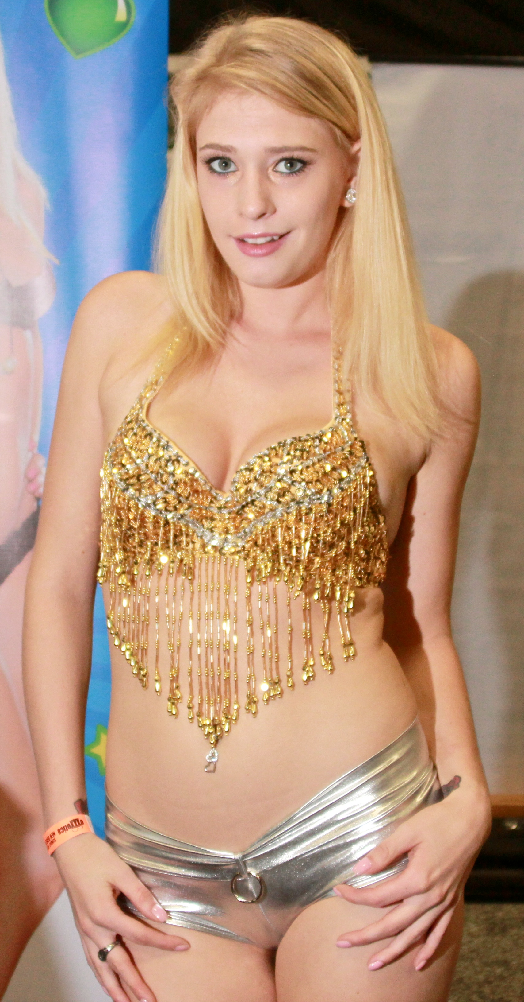 Allie James at Exxxotica NJ 2013 in Edison, New Jersey.